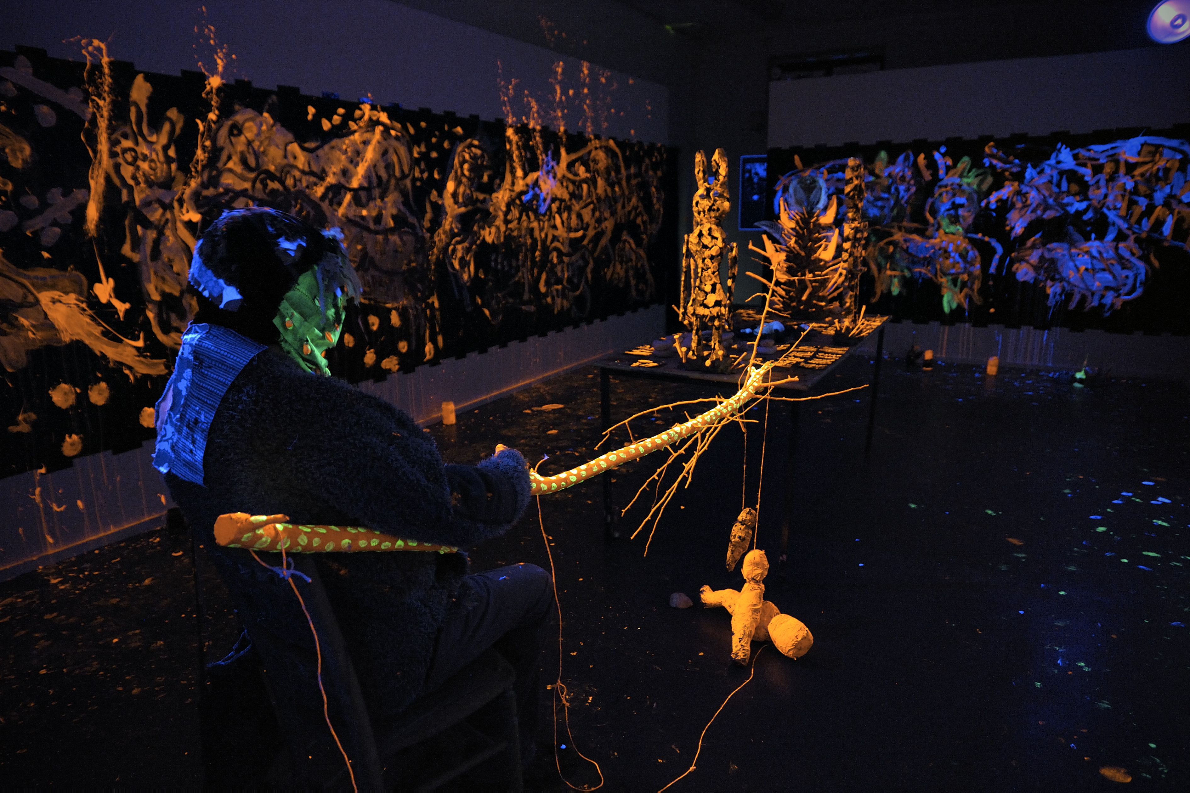 Image taken and donated by Julius G Beltrame 2012